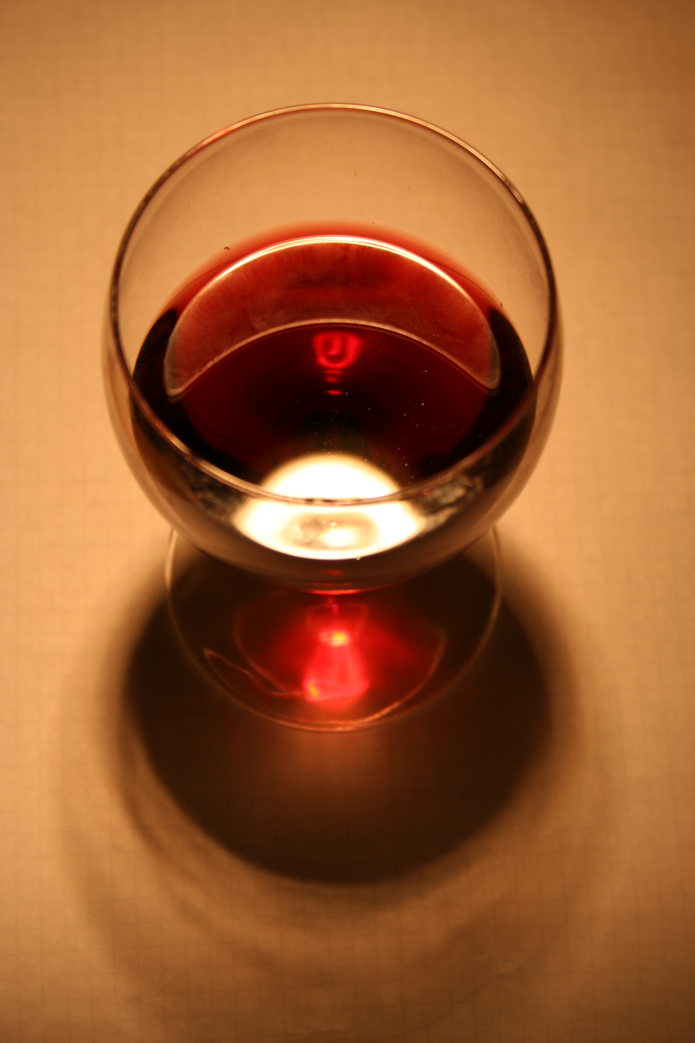 French wine from the Corbières AOC of the Languedoc